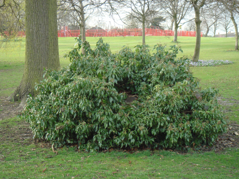 Stump of the old Selly Oak-tree in Selly Oak Park overgrown with ivy